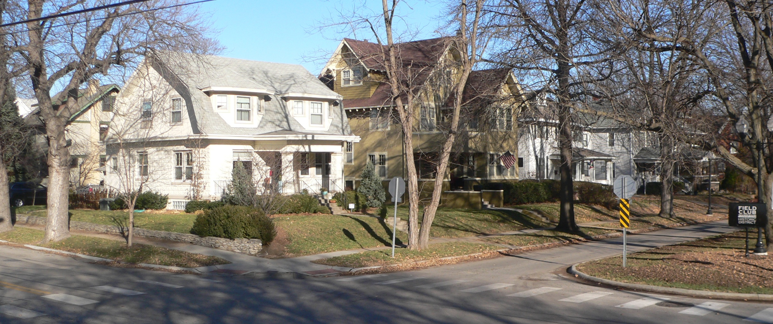 Northeast corner of Woolworth Avenue (runs eastward to the right) and 36th Street (runs northward to the left) in Omaha, Nebraska. The white house at left is 3566 Woolworth; the house to the right of that is 3564 Woolworth. The area shown is part of the Field Club Historic District, listed in the National Register of Historic Places.